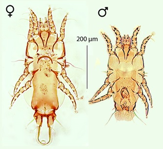 Female and male Proctophyllodes polyxenus